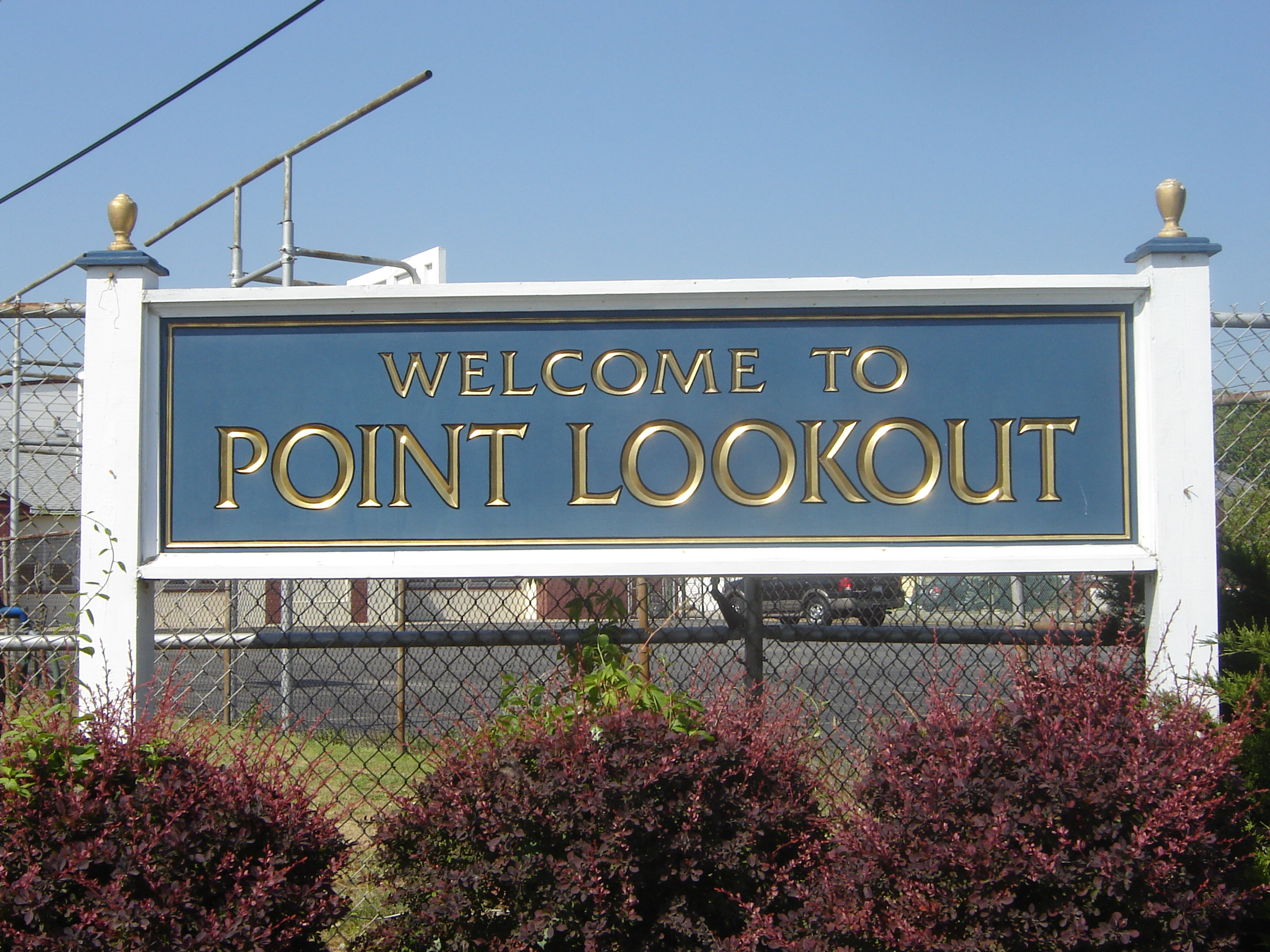 Welcome to Point Lookout sign, Point Lookout, New York.